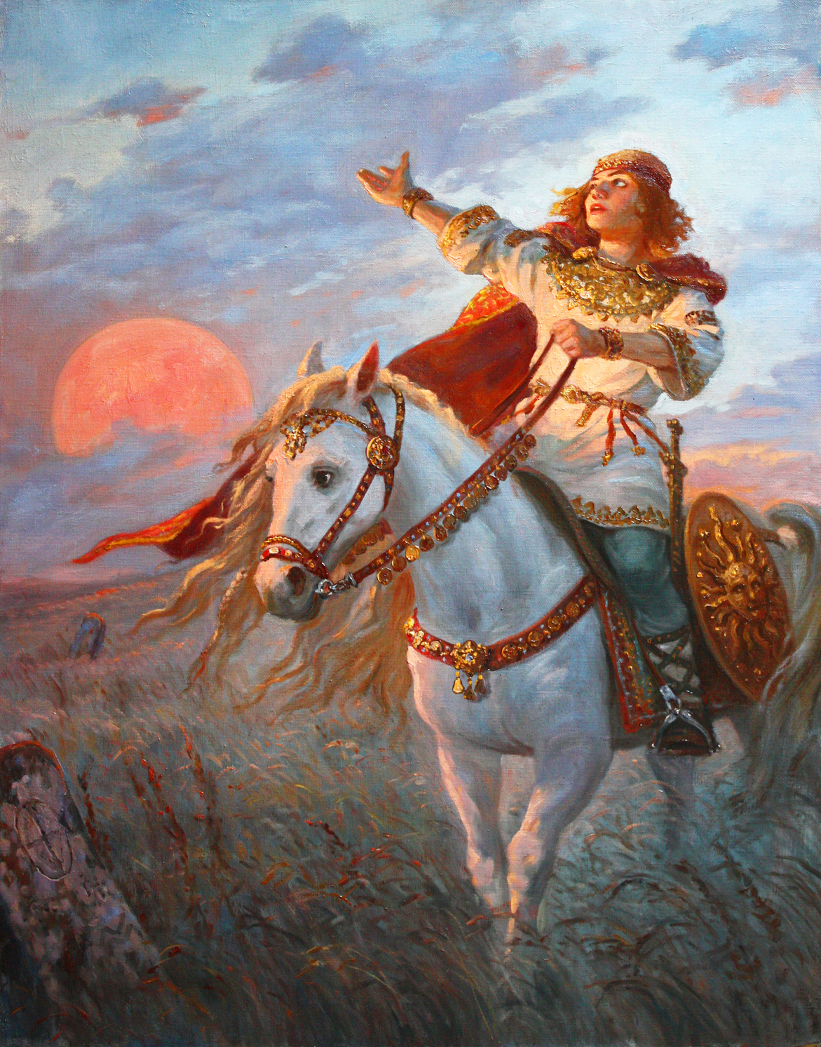 Xors by Andrey Shishkin